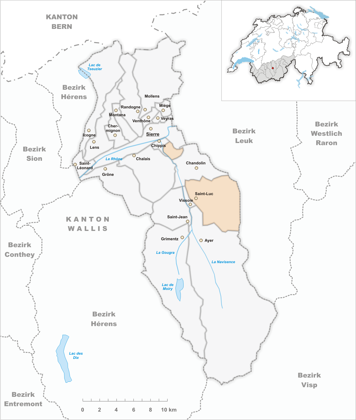 Municipality Saint-Luc